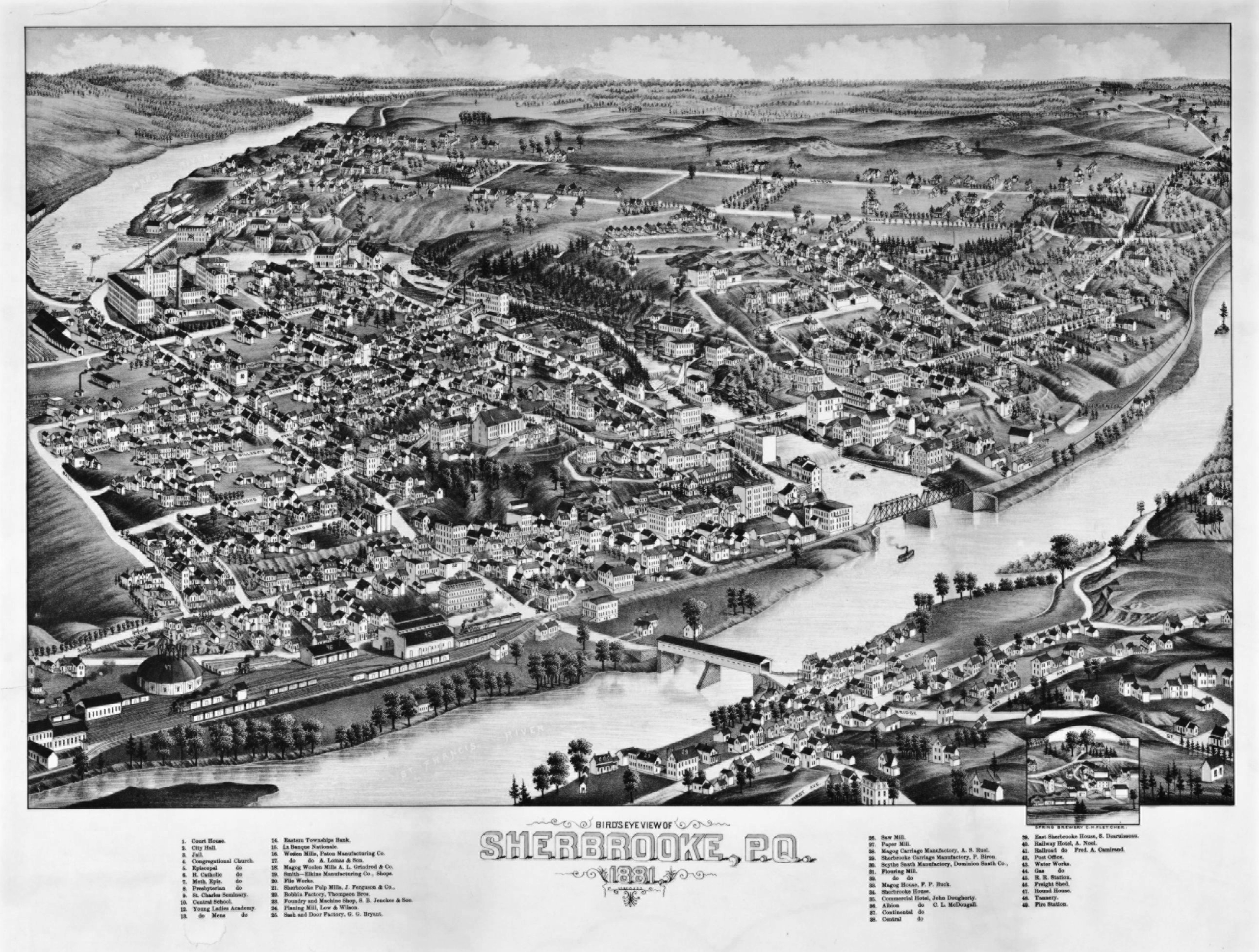 Titre : Bird's eye view of Sherbrooke, P.Q. 1881